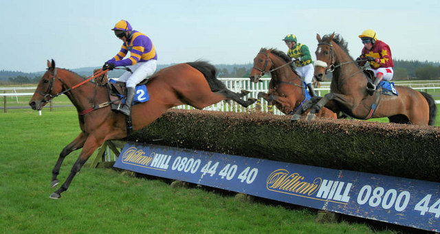 No Way Back at the final fence No Way Back (no.2) soars over the final fence here but finishes second in this race.